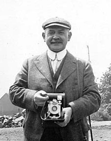 American academic and photographer John Nathan Cobb.